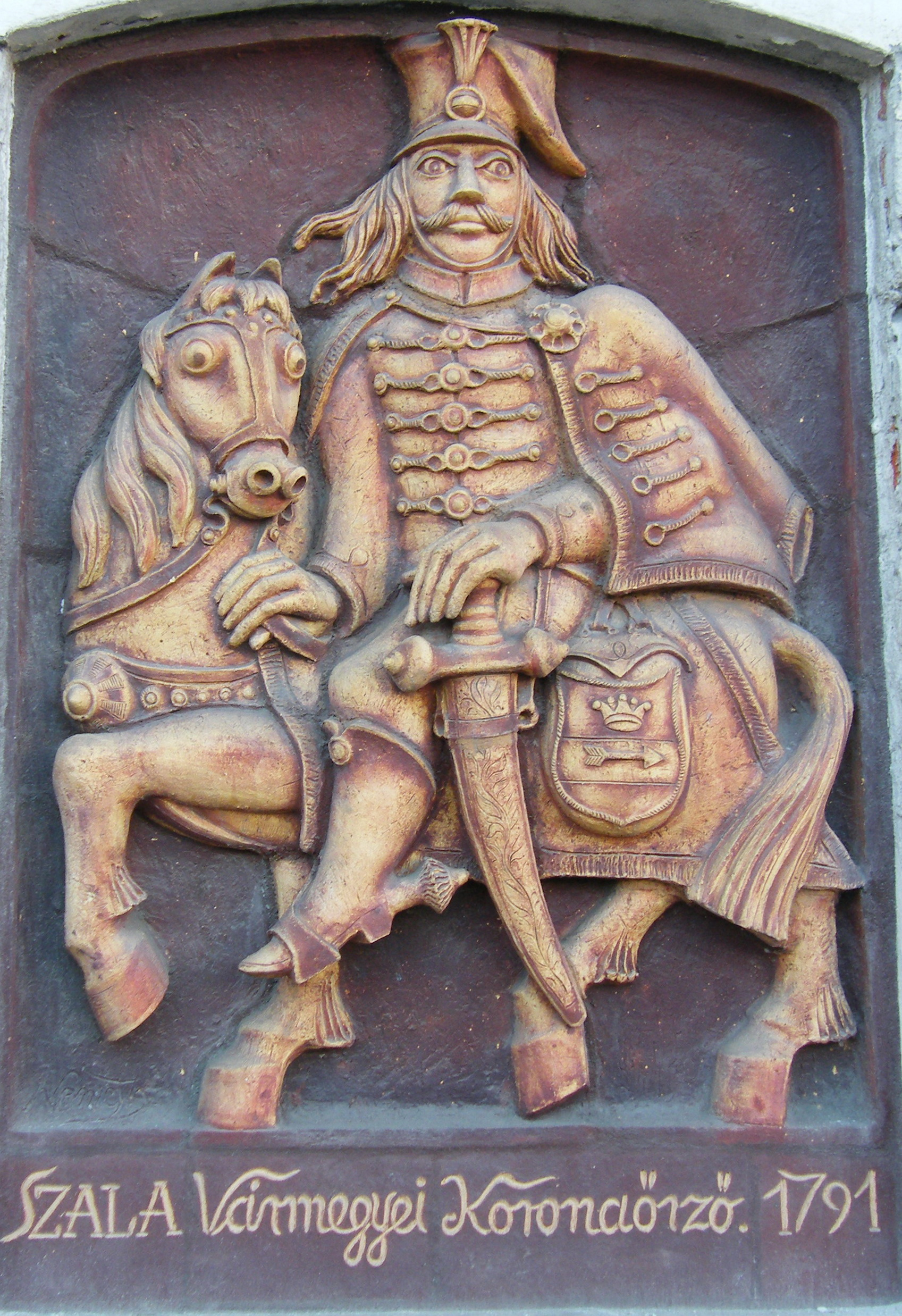 Szala vármegyei koronaőrző 1791, Zalaegerszeg, work of János Németh